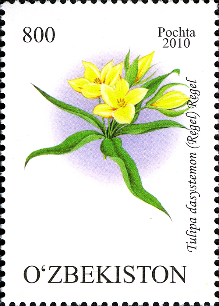 Stamps of Uzbekistan, 2010